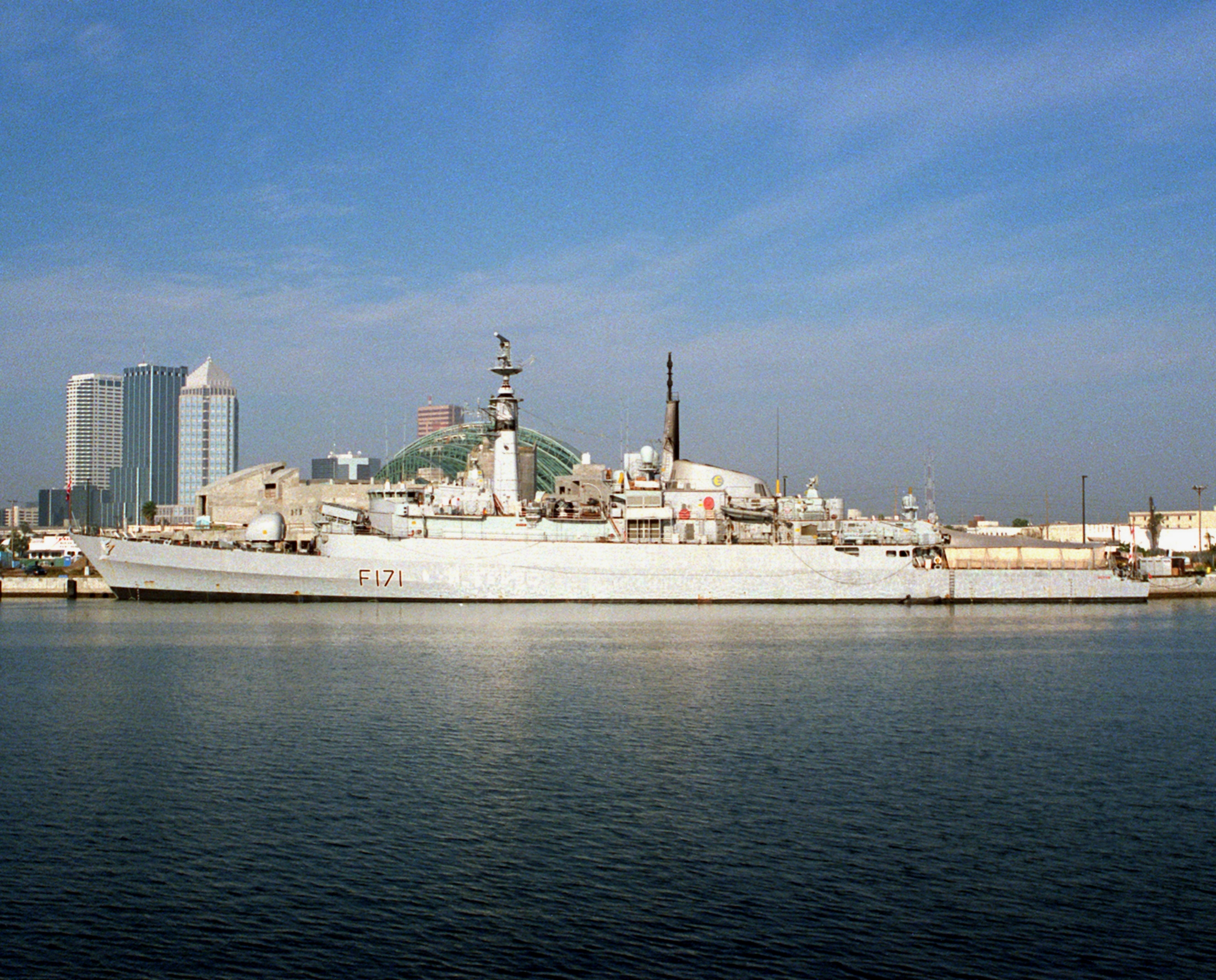 The Royal Navy frigate HMS Active (F171) tied up at a pier duirng a port visit at Tampa Bay, Florida (USA), in 1994.